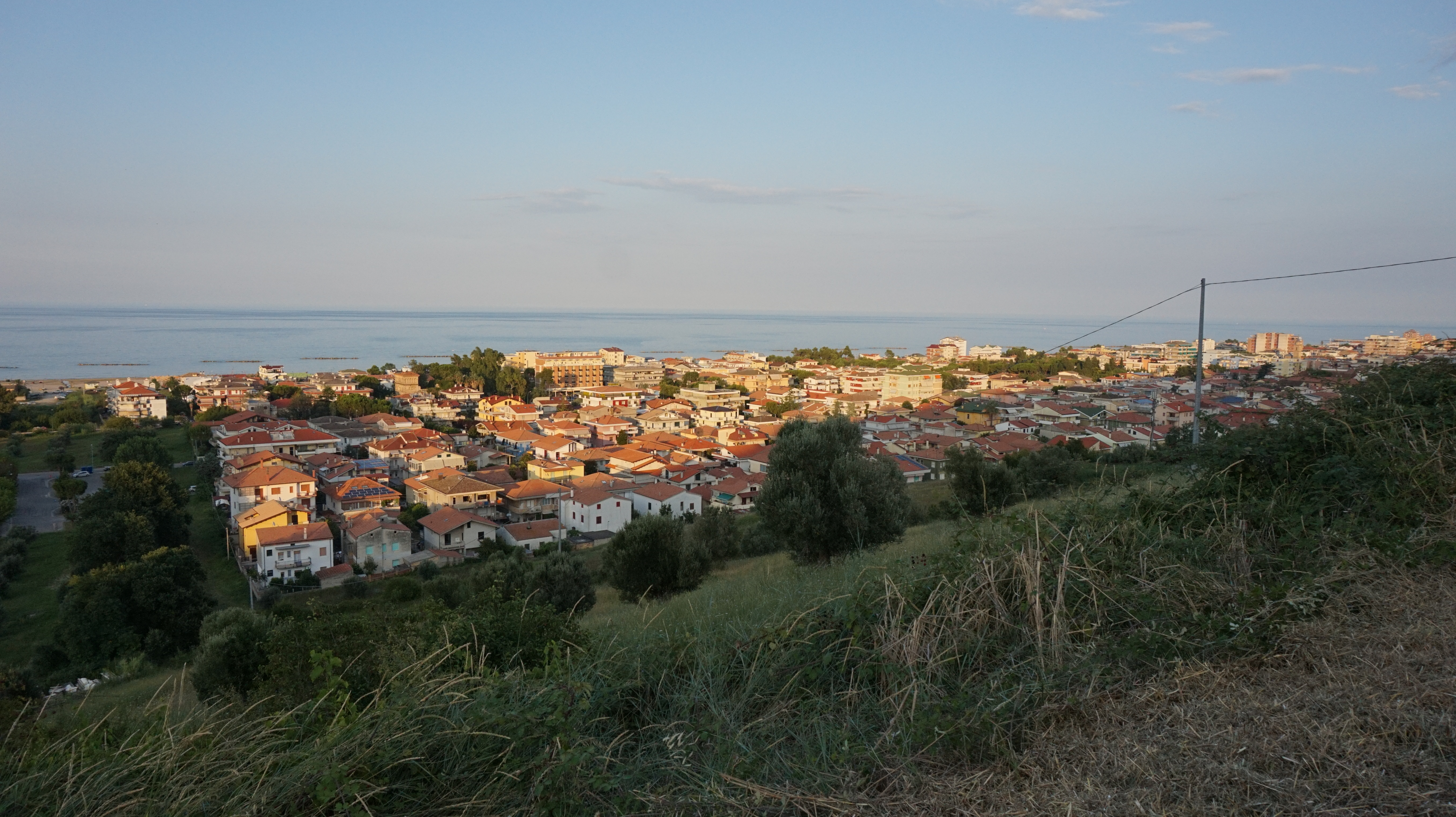 Picture of Roseto degli Abruzzo taken in the evening.